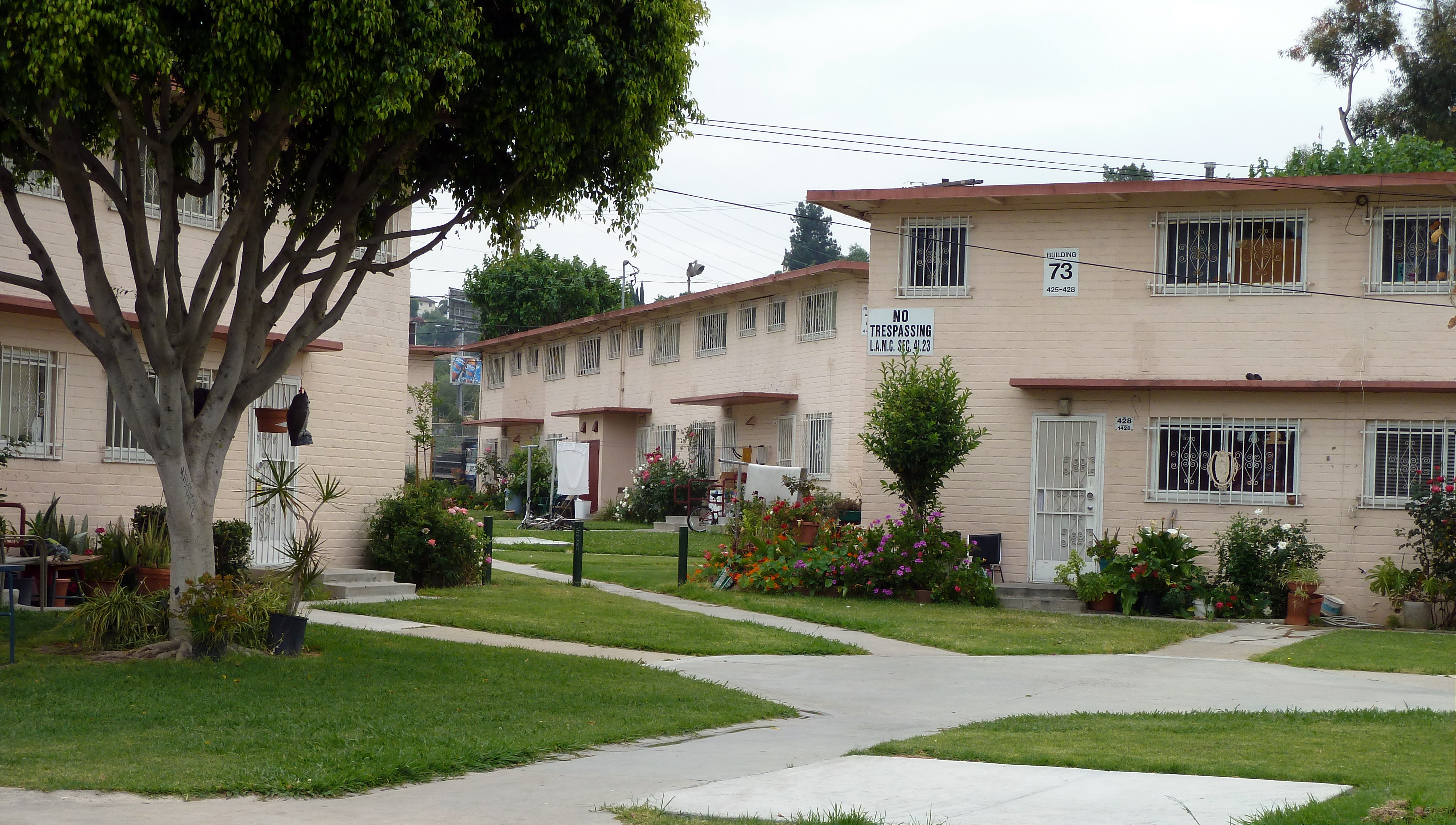 Buildings and landscape at Ramona Gardens in Boyle Heights, Los Angeles, California.